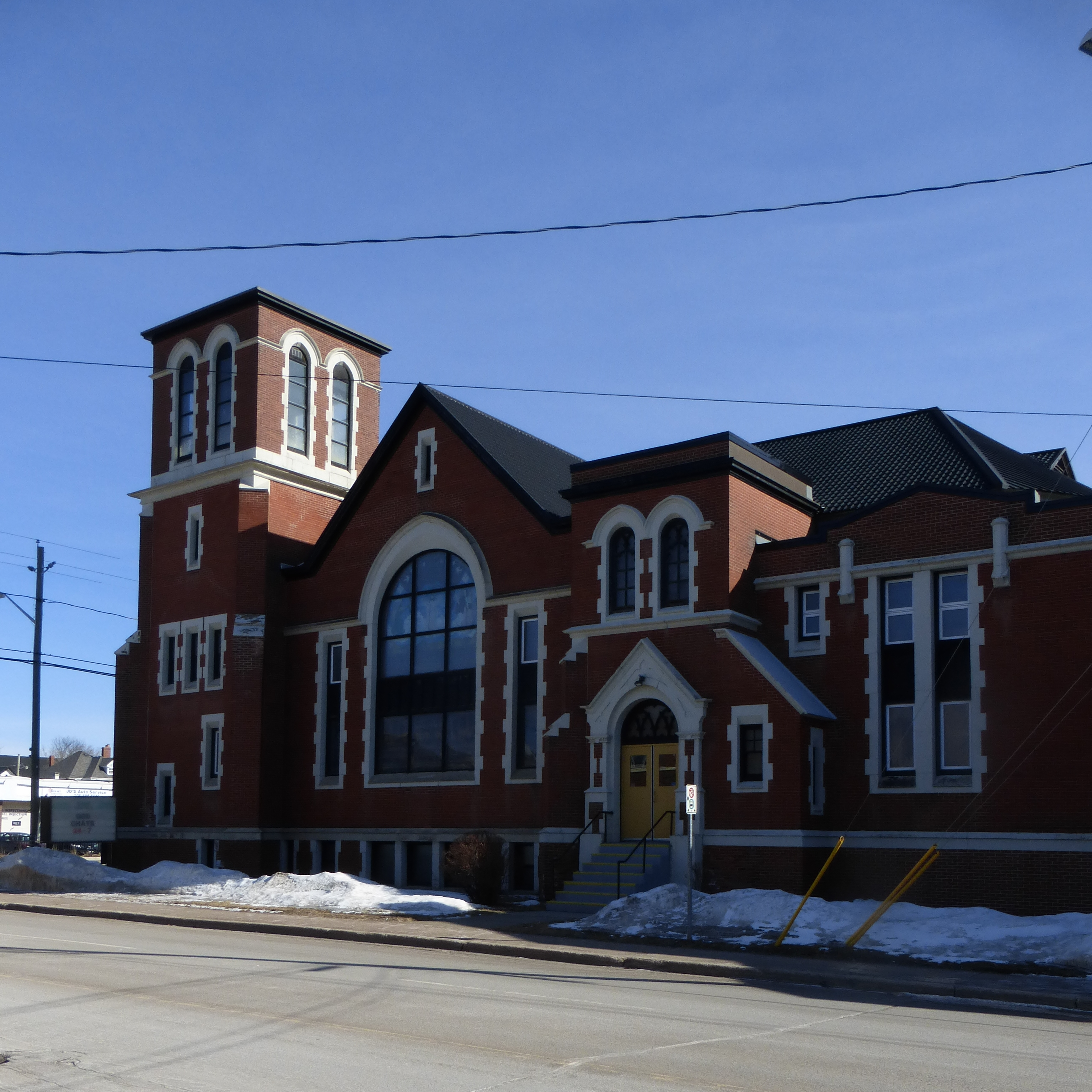 Highfield Baptist Church, Moncton, New Brunswick, designed by Leslie R. Fairn and completed in 1953